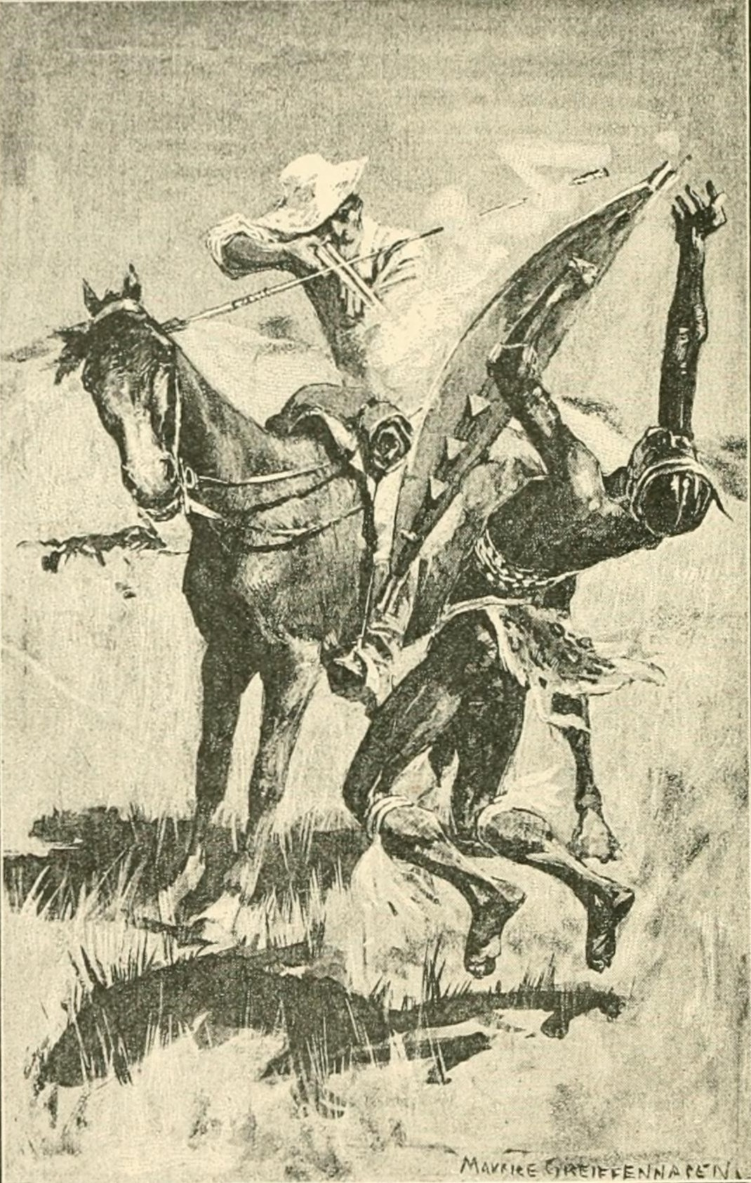 Illustration by Maurice Greiffenhagen, from page 62 of the H. Rider Haggard short story "Allan's Wife"